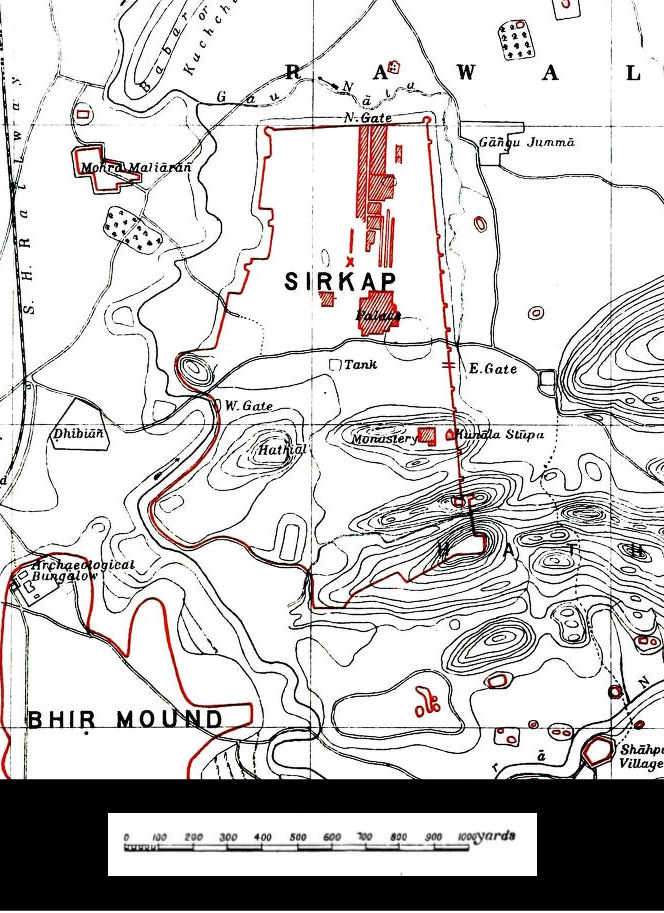 Map of Sirkap excavations 1918